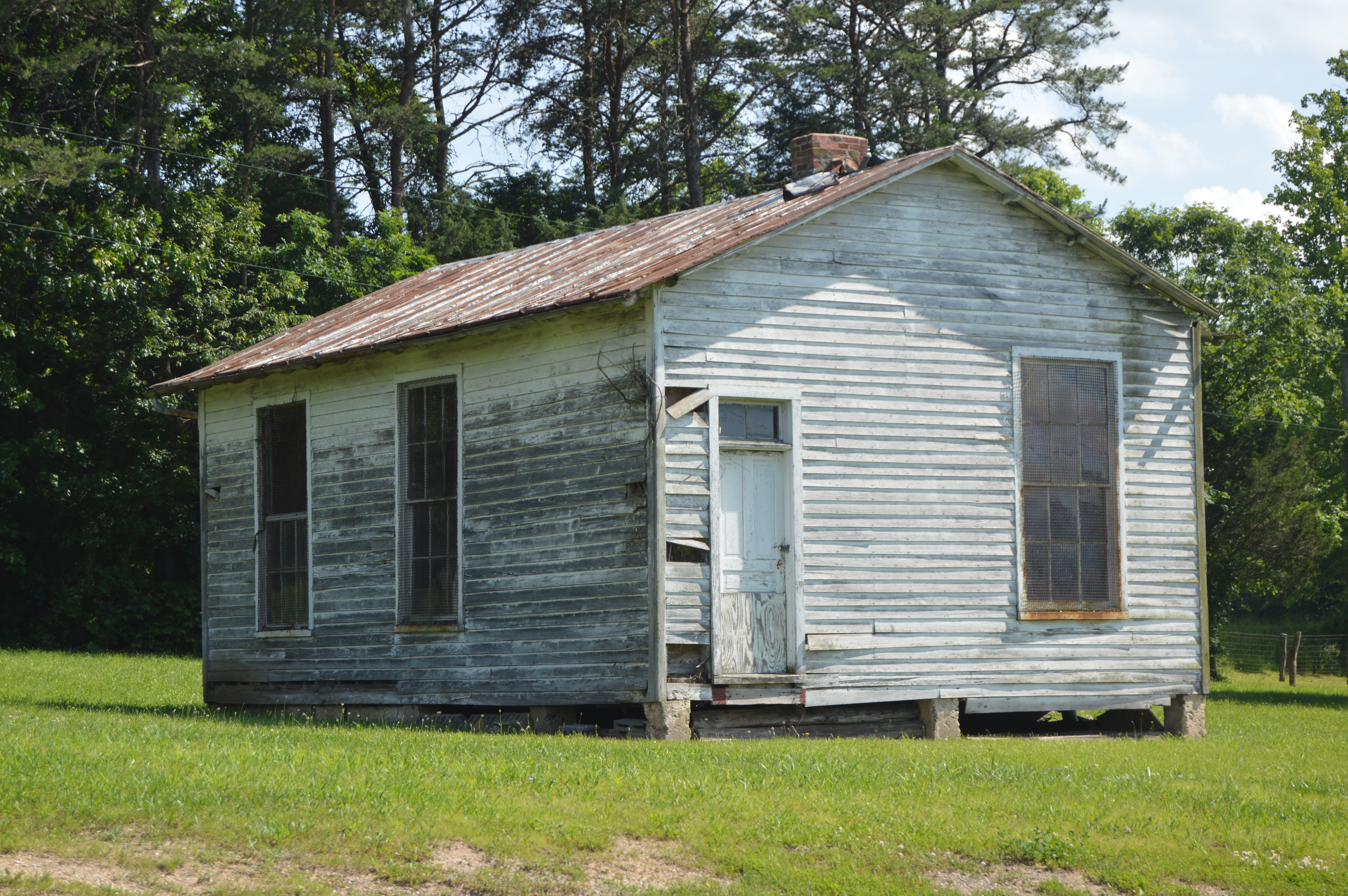 Front and northeastern side of the Estaline Schoolhouse, located on Estaline Valley Road just east of the Augusta Correctional Center in Augusta County, Virginia, United States. Built in 1909, it is listed on the National Register of Historic Places.